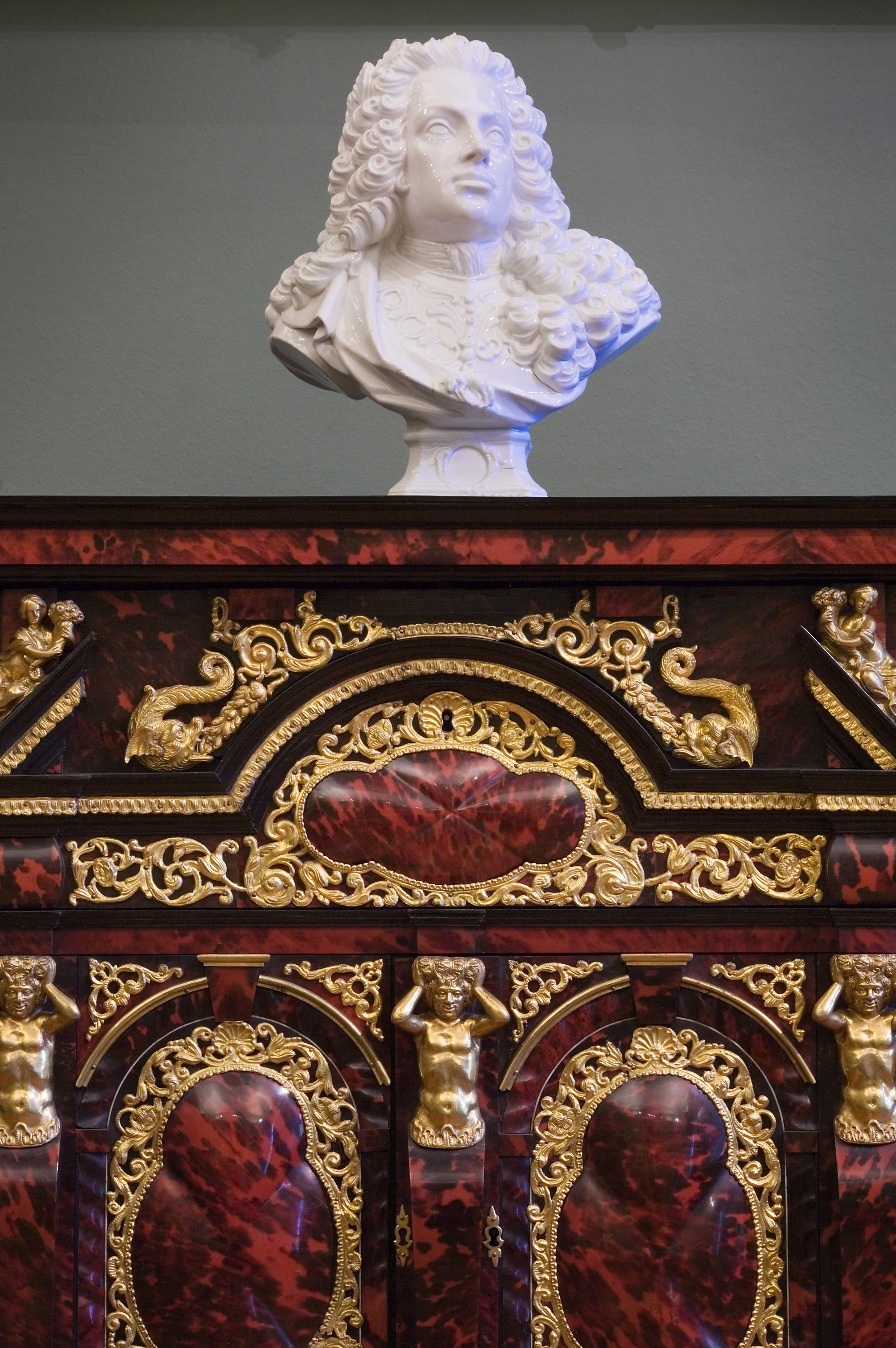 Tortoise shell cabinet & baroque bust